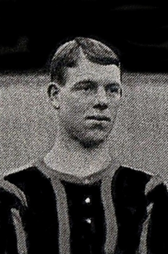 Ernest Ramsden while with Brentford FC in 1908. Picture from Brentford team photograph published in 1908.